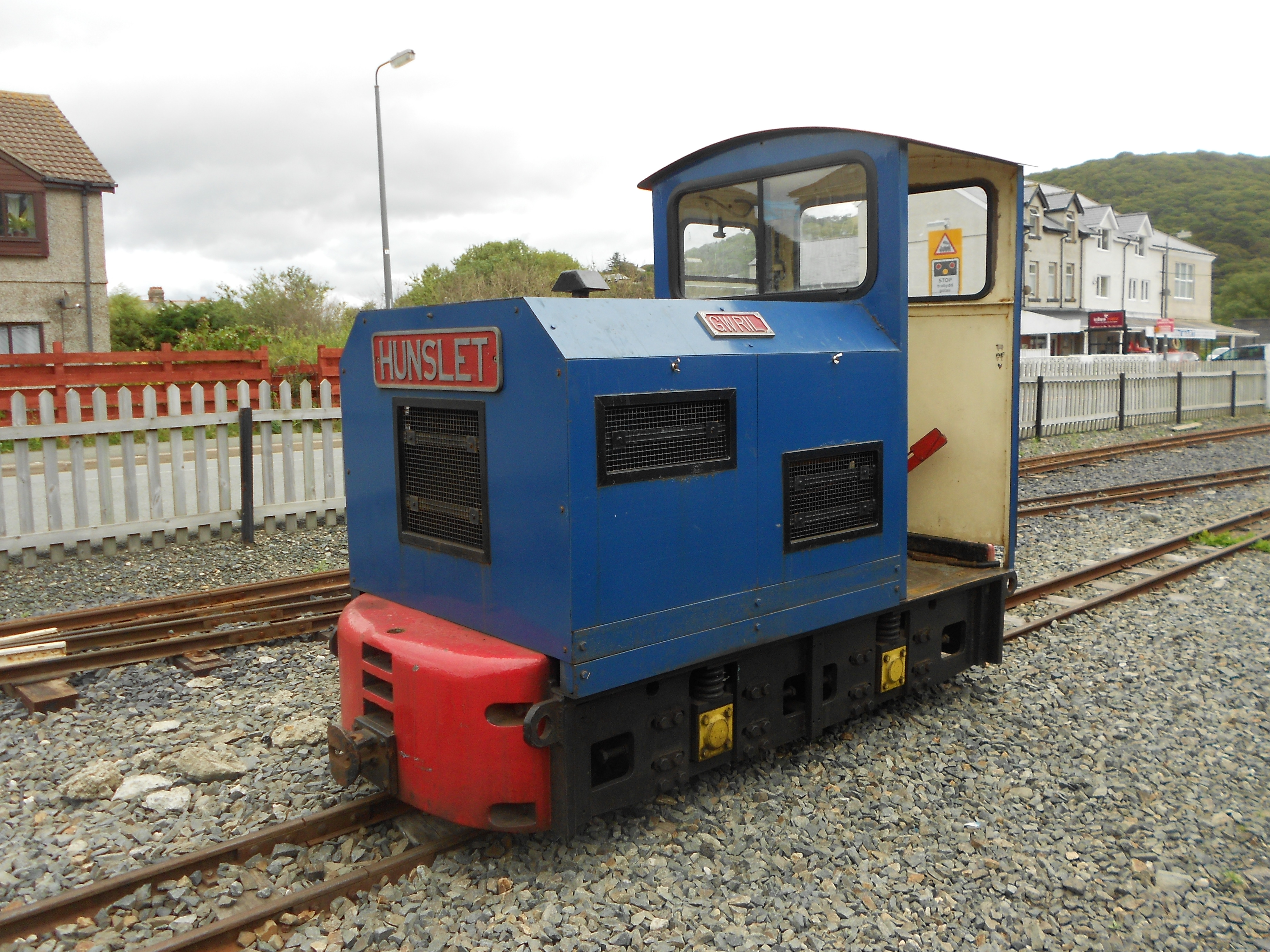 Locomotive "Gwril" on the Fairbourne Railway in Wales.